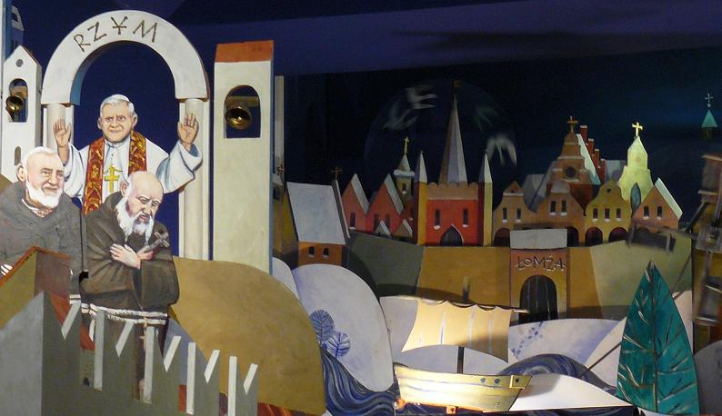 Nativity scene in Łomża. Detail.